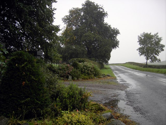 Entrance to Airieland The entrance to Airieland House.